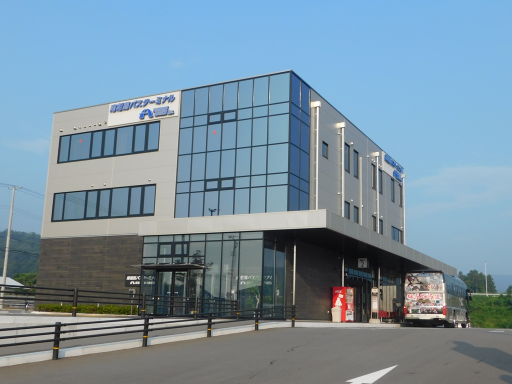 Touhoku Access MinamiSoma busterminal